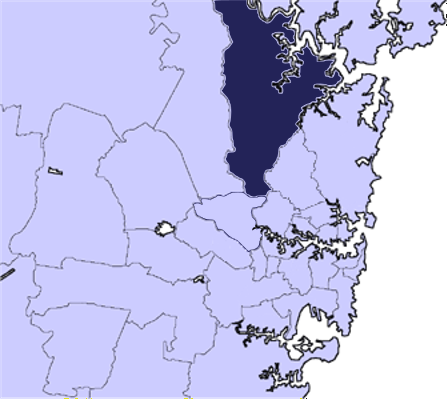 Locator Map Hornsby lga sydney.png Based on Image:Ku-ring-gai sydney.png by User:Randwicked.